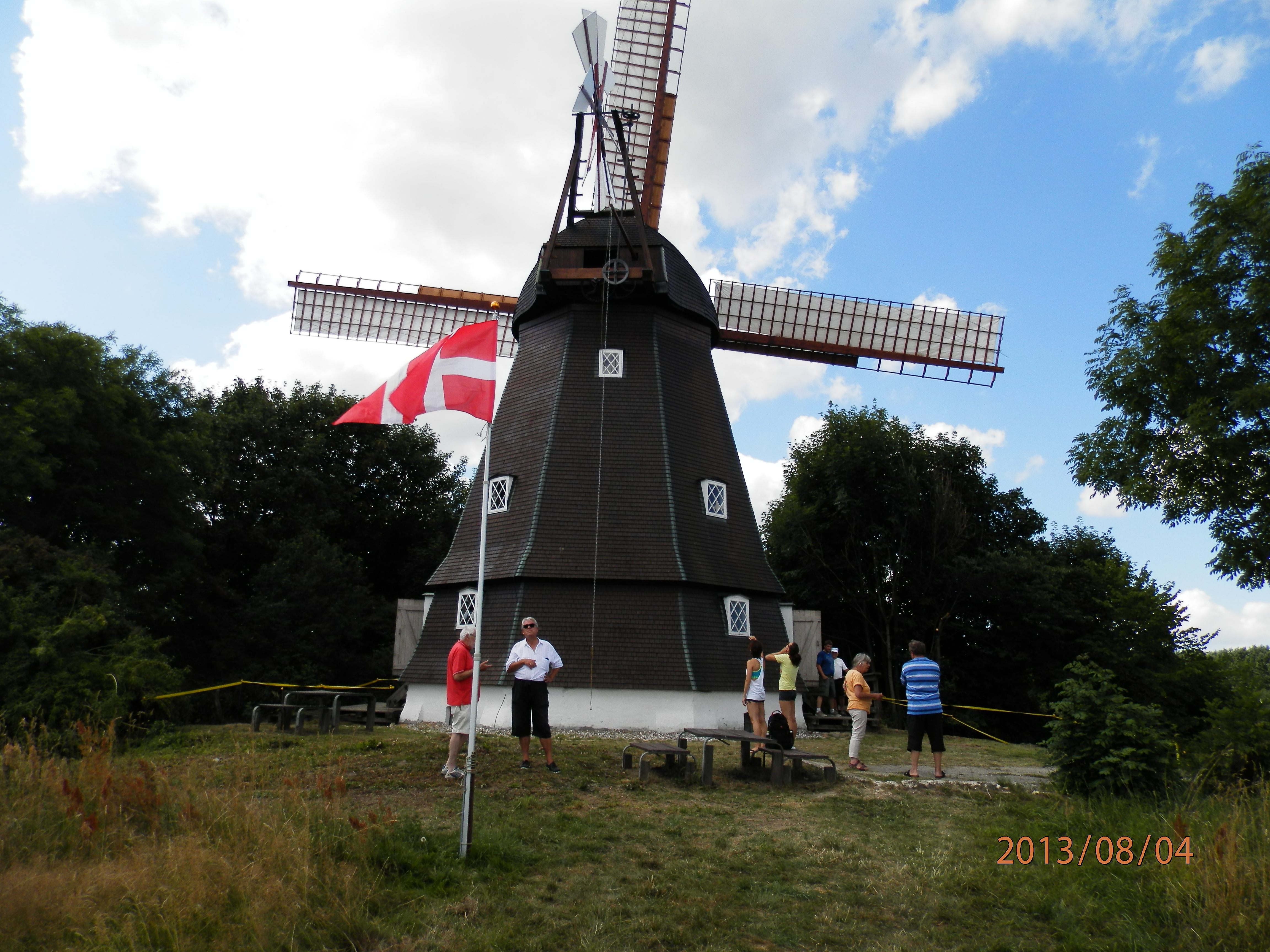 Windmill in Denmark